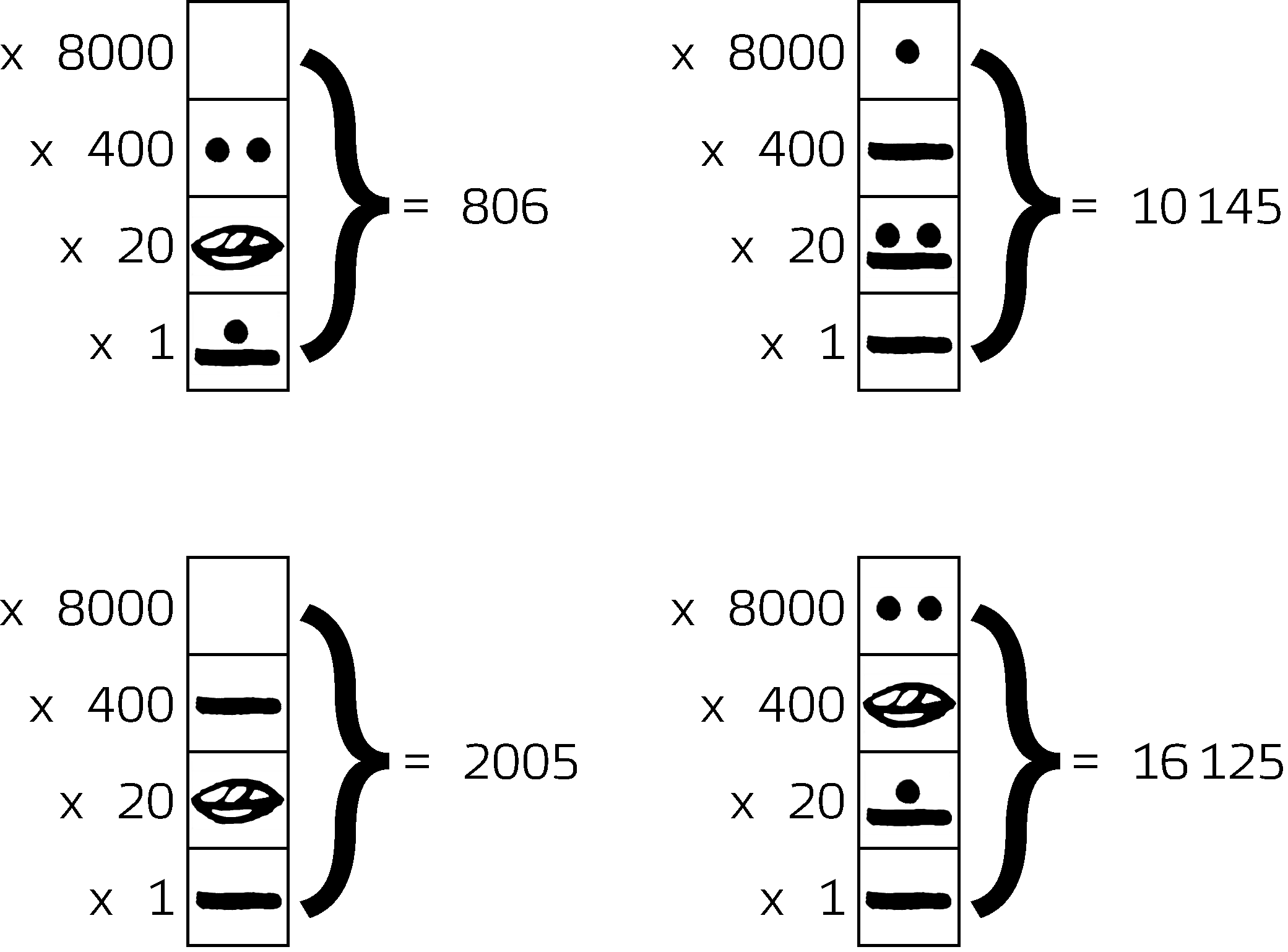 This file contains a few examples of how to calculate te value of Mayan numerals.